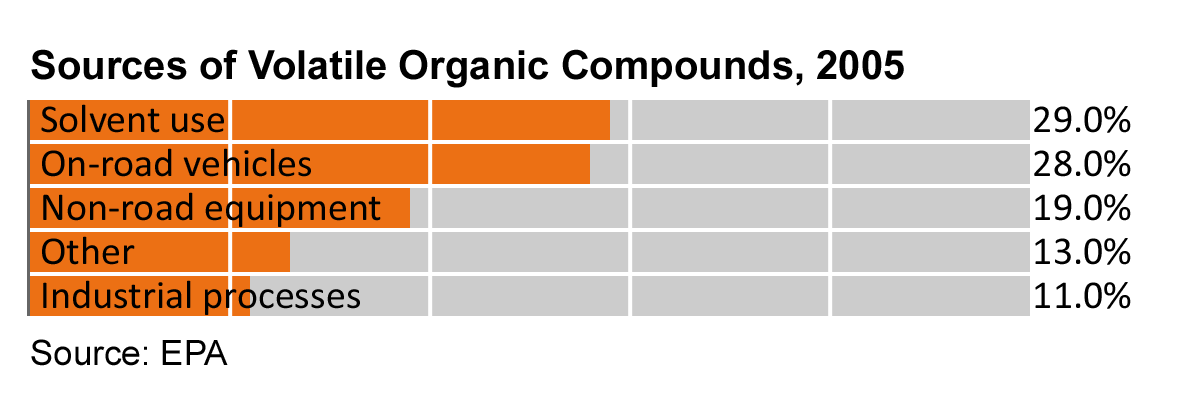 Sources of Volatile Organic Compounds, 2005